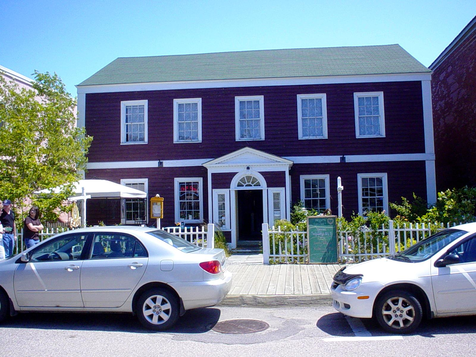 Adams-Ritchie House, Annapolis Royal, 1712